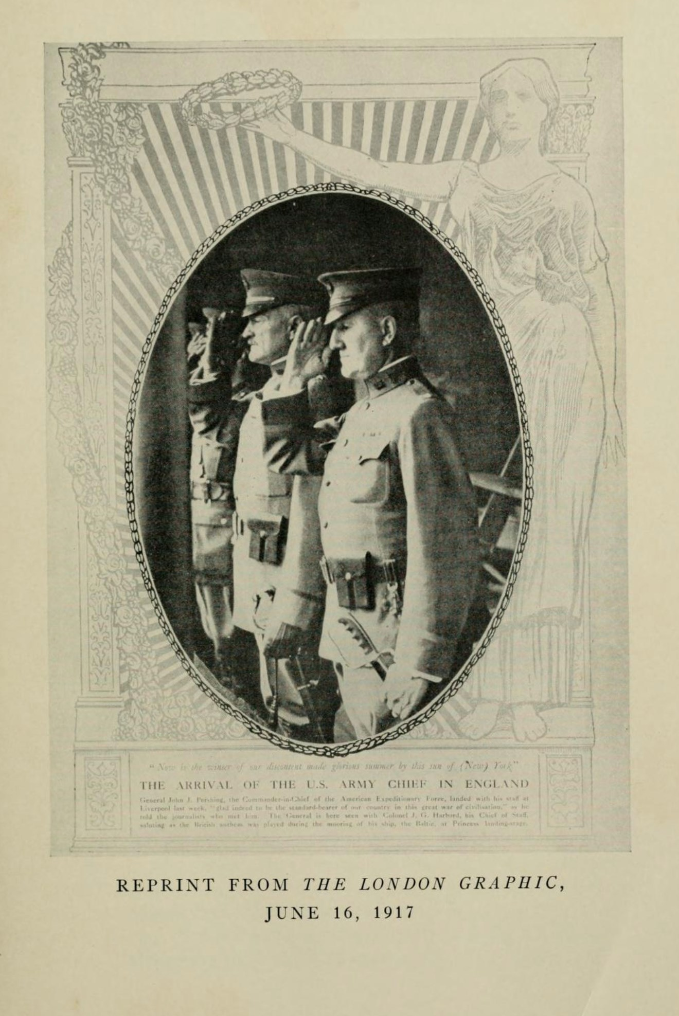 General Pershing & General Harbord, on their first day in France